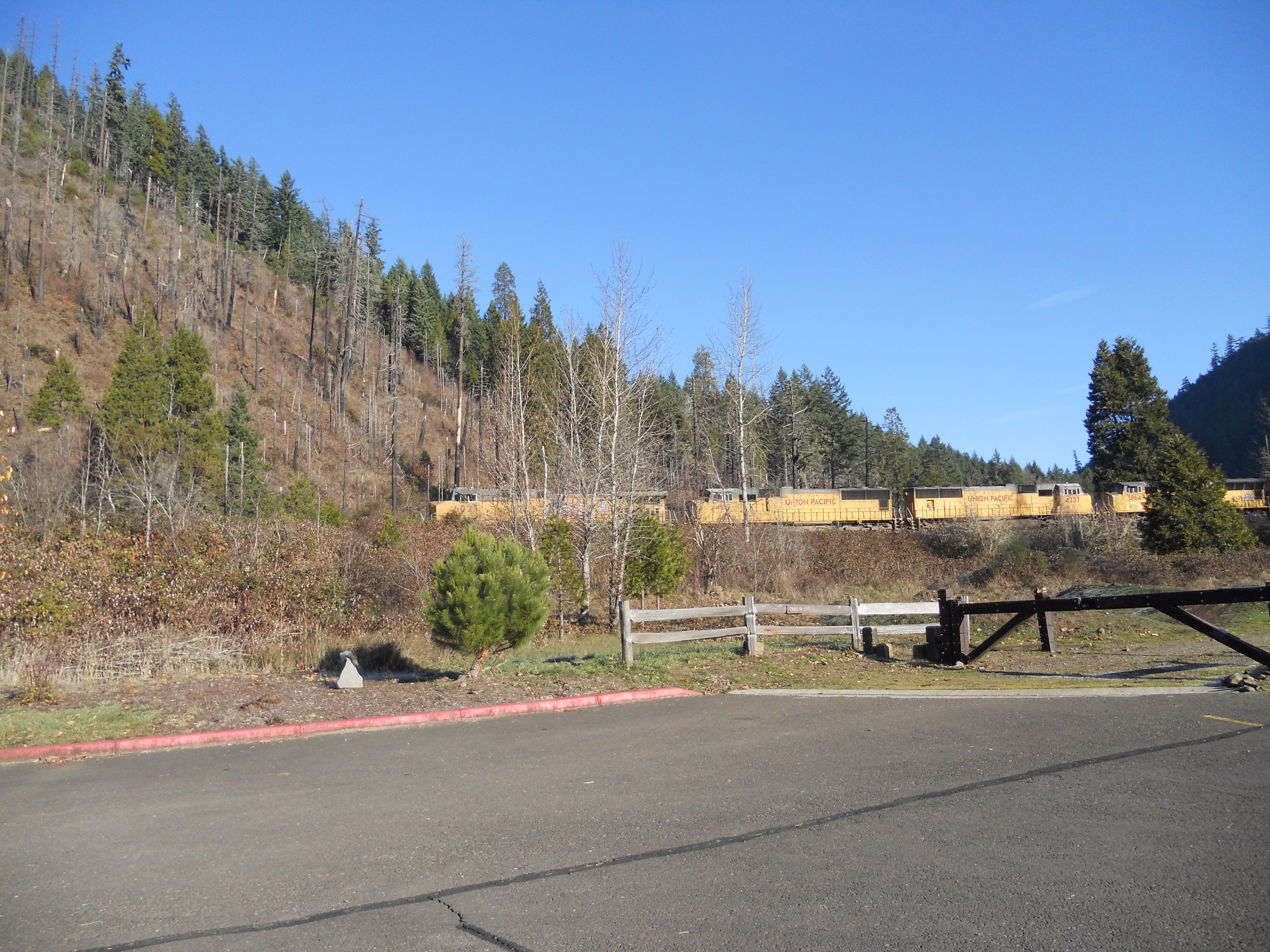 A train on the Union Pacific Railroad passing by Westfir, a city in Lane County, Oregon, located at the confluence of the North Fork Middle Fork and Middle Fork Willamette rivers